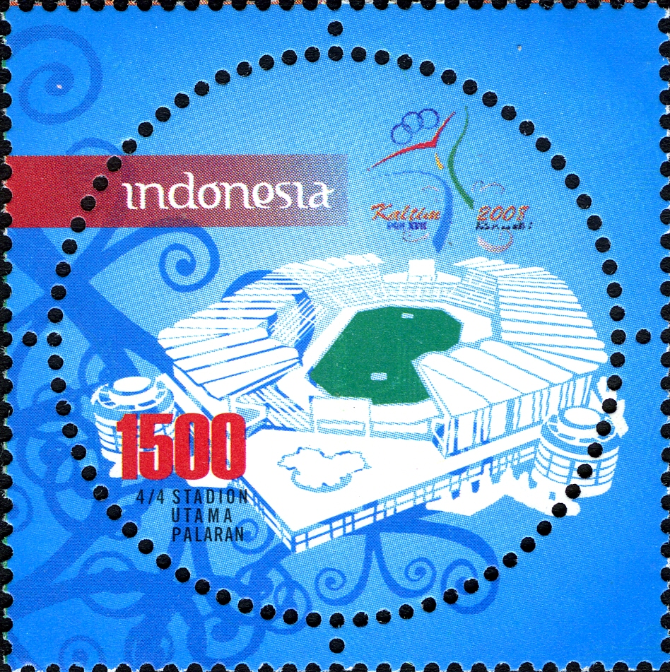 Stamps of Indonesia